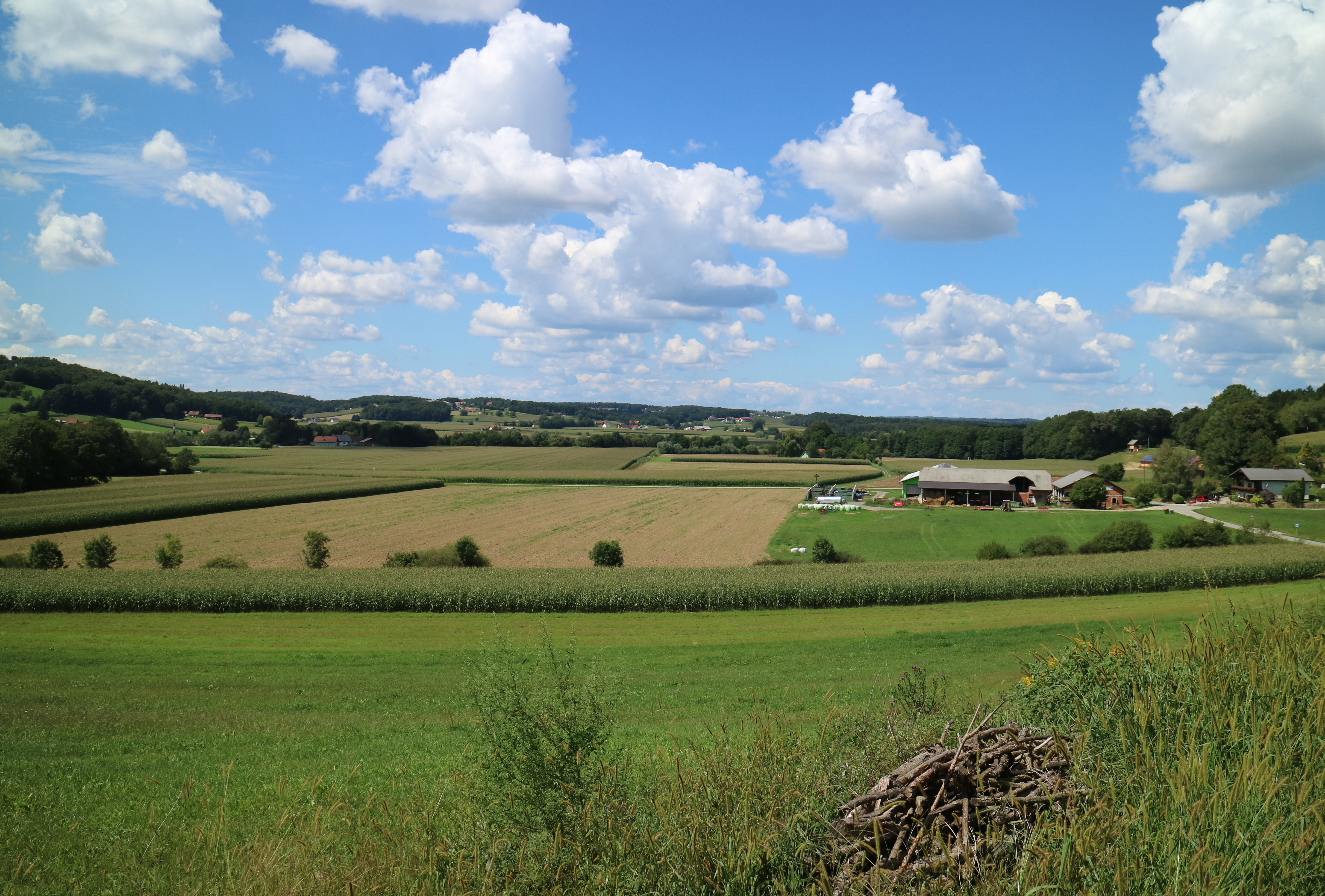 Ščavnica valley at Lastomerci, Slovenia